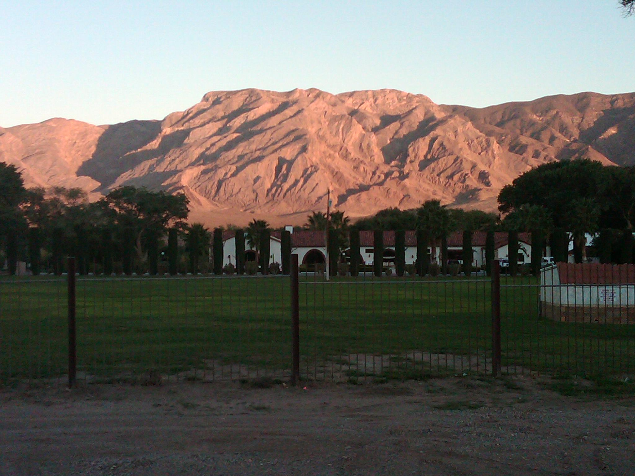 The Historic Beaver Dam Lodge shown with Chief Sleep Easy mountain in the background.